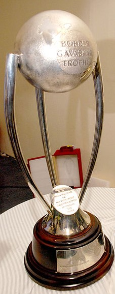 भारत व ऑस्ट्रेलिया यांच्यात कसोटी क्रिकेट सामन्यांत विजयी संघाला देण्यात येणाऱ्या चषकाला बॉर्डर-गावस्कर चषक असे नाव आहे.